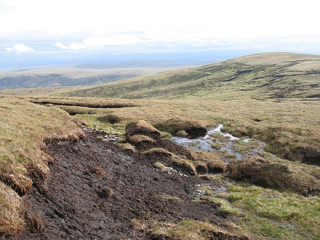 Dissected peat bog The mossy upper slopes give way to deep peat deposits on the western, gentle side of the Ben Armine range.